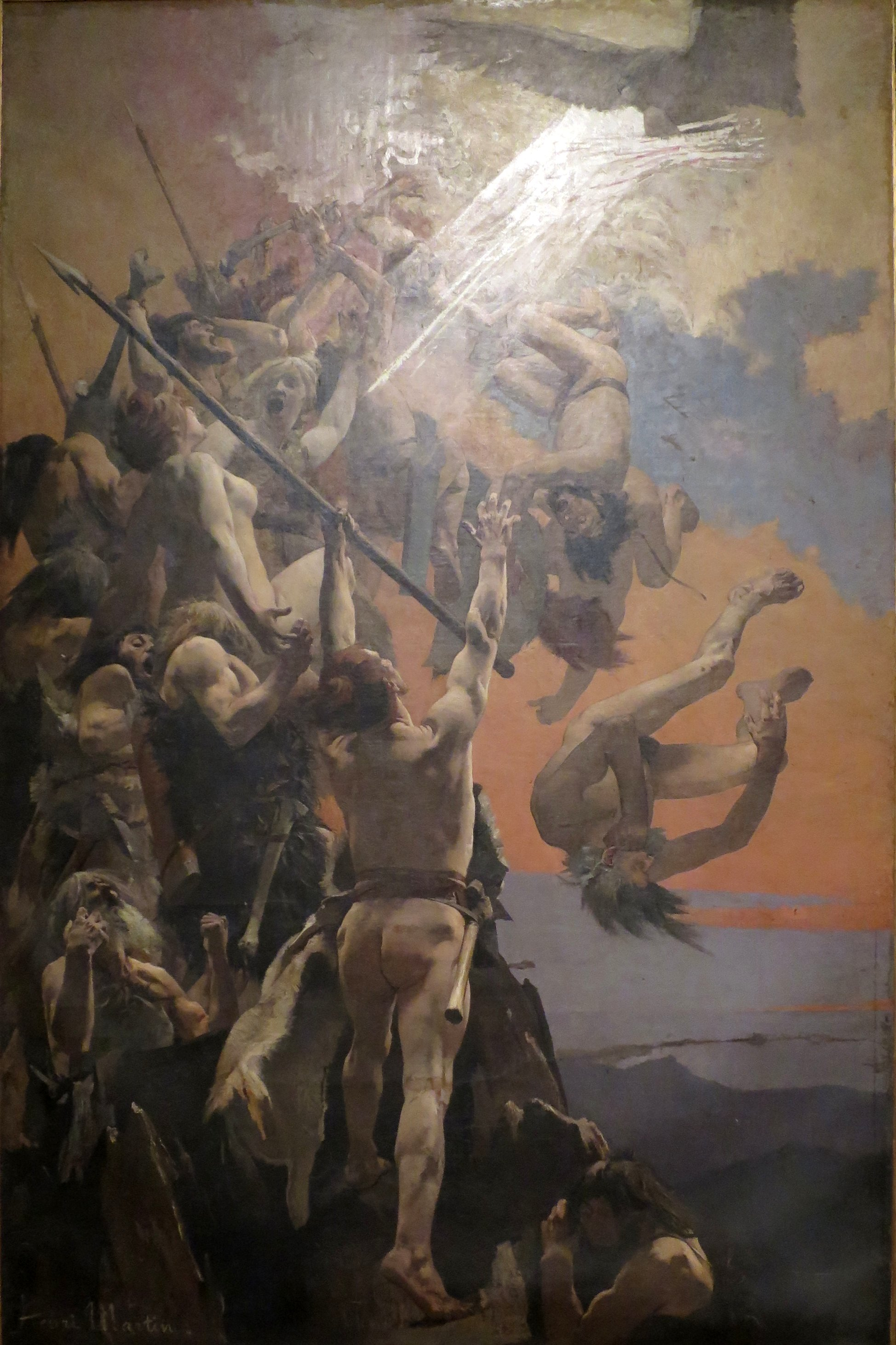 Titans Fighting against Jupiter